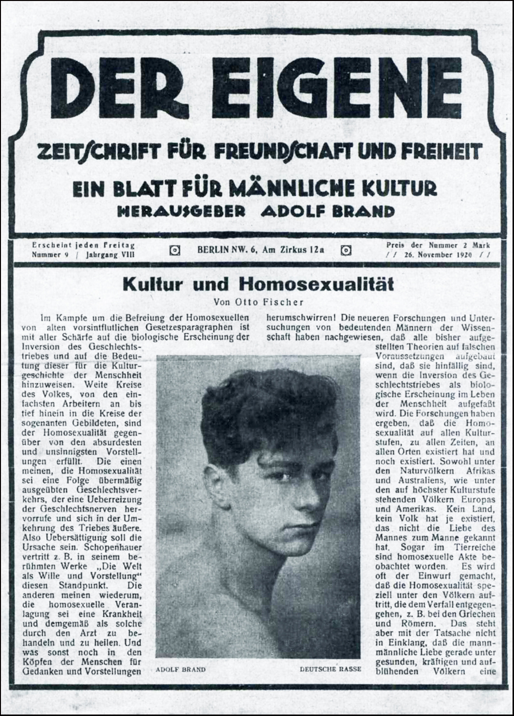 Der Eigene. Zeitschrift für Freundschaft und Freiheit, vol. 8, no. 9 (26 November 1920), cover.